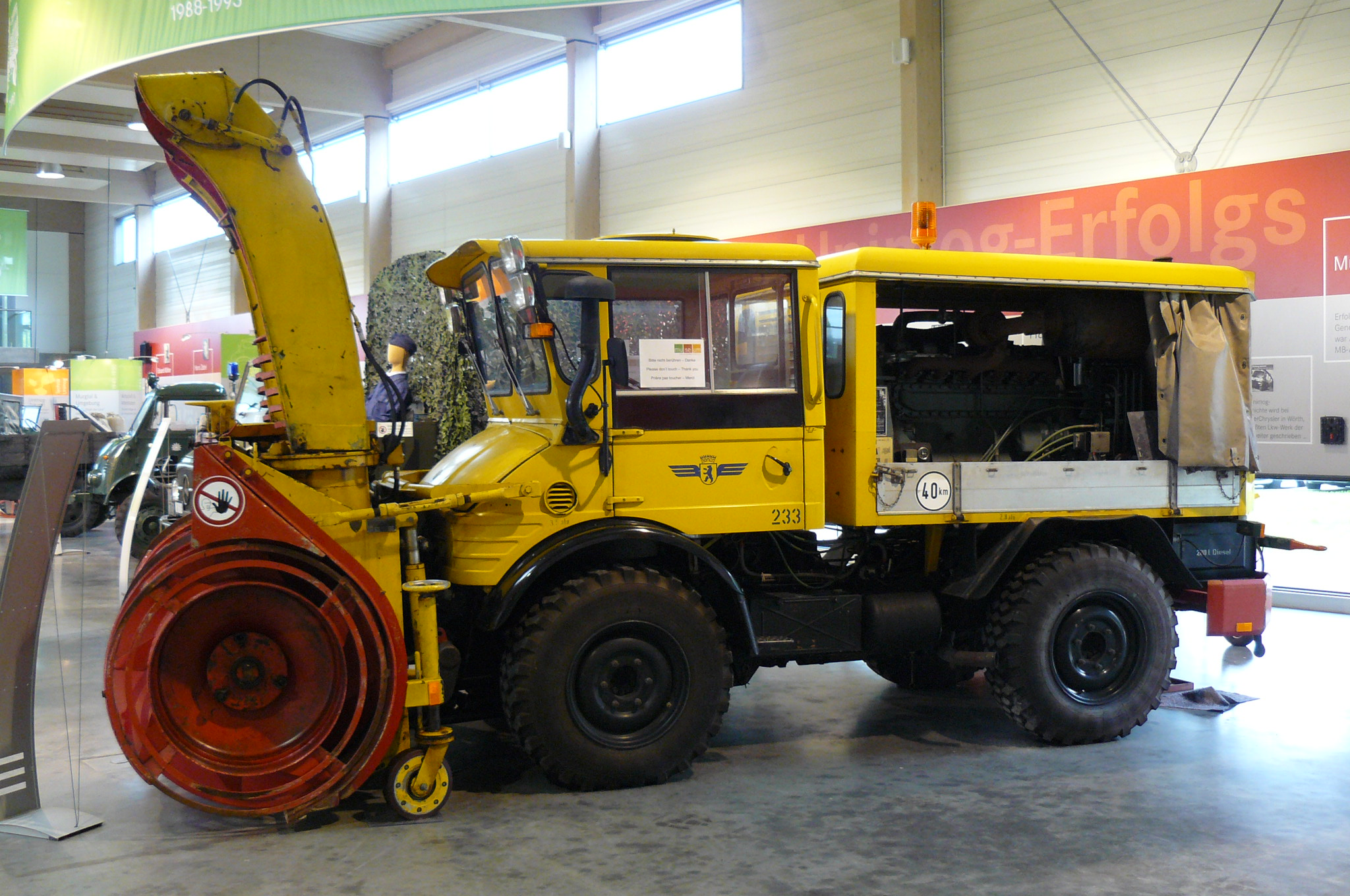 Unimog 406 snowblower used by Berliner Flughafen Tegel. Built in 1974. Seen in the Unimog-Museum in Gaggenau in September 2014.